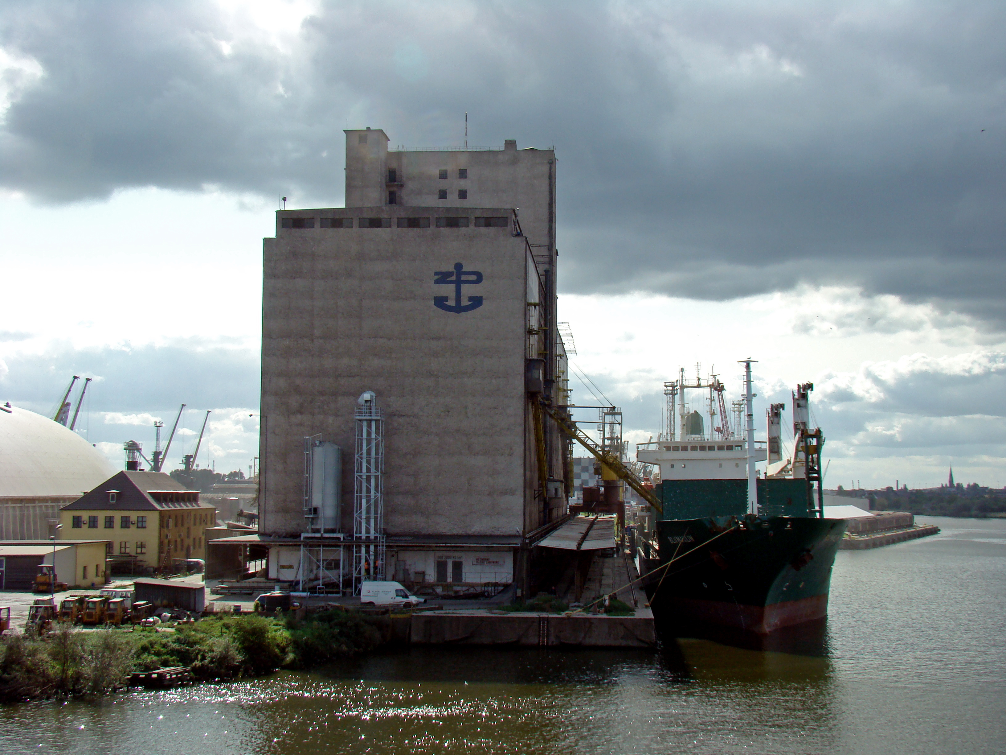 The "Ewa" elevator in Szczecin Port, Poland